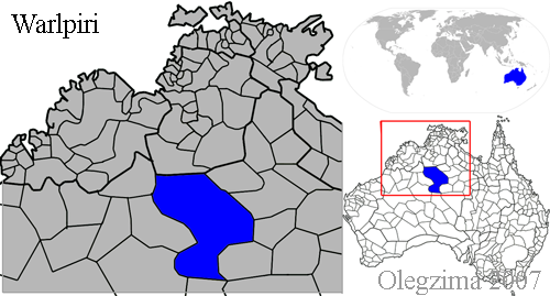 territory, where Warlpiri language is used